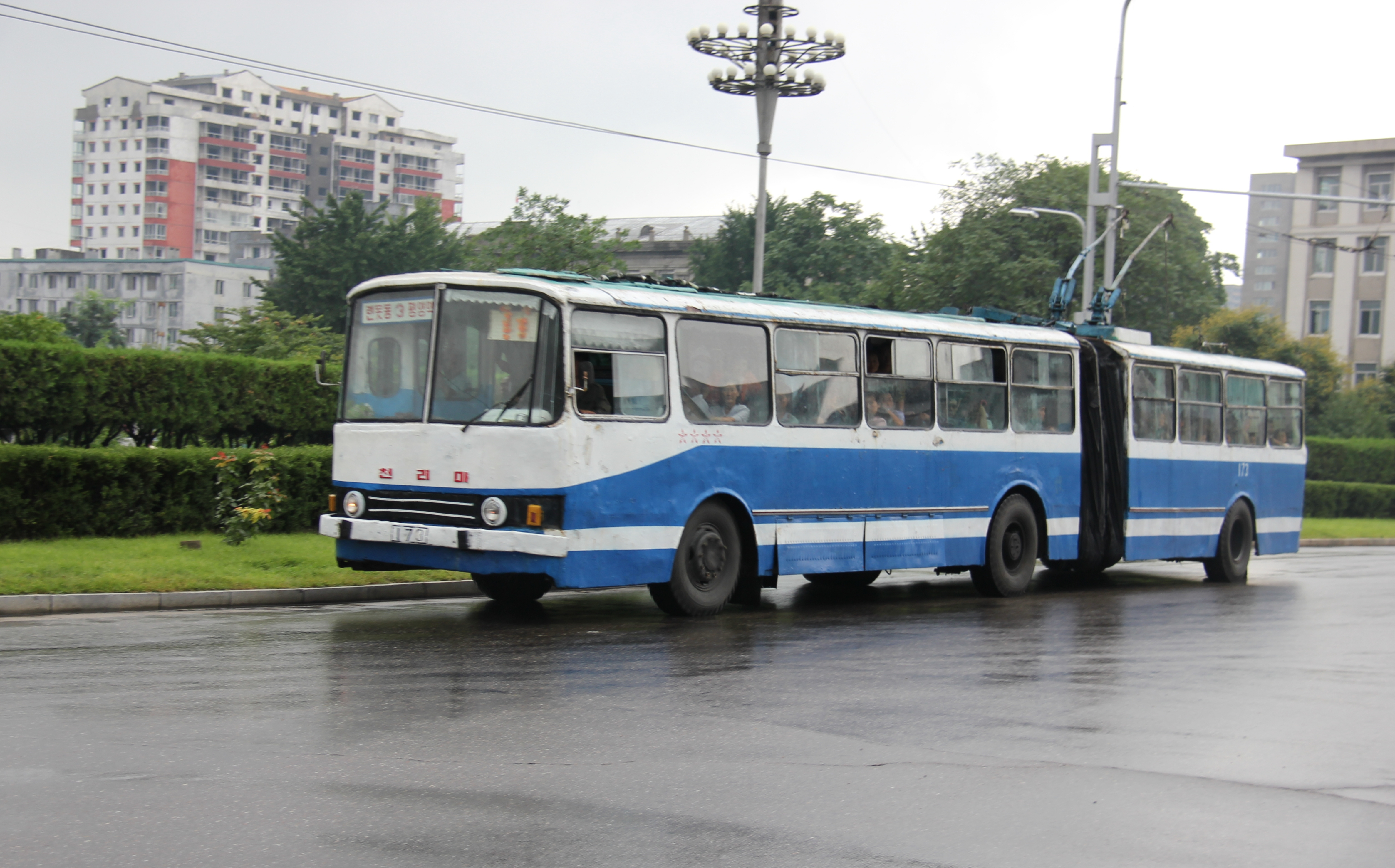 Pyongyang trolleybus 173 was a type Chollima-862. By 2014, it had been replaced by a Chollima-091 carrying the same fleet number.